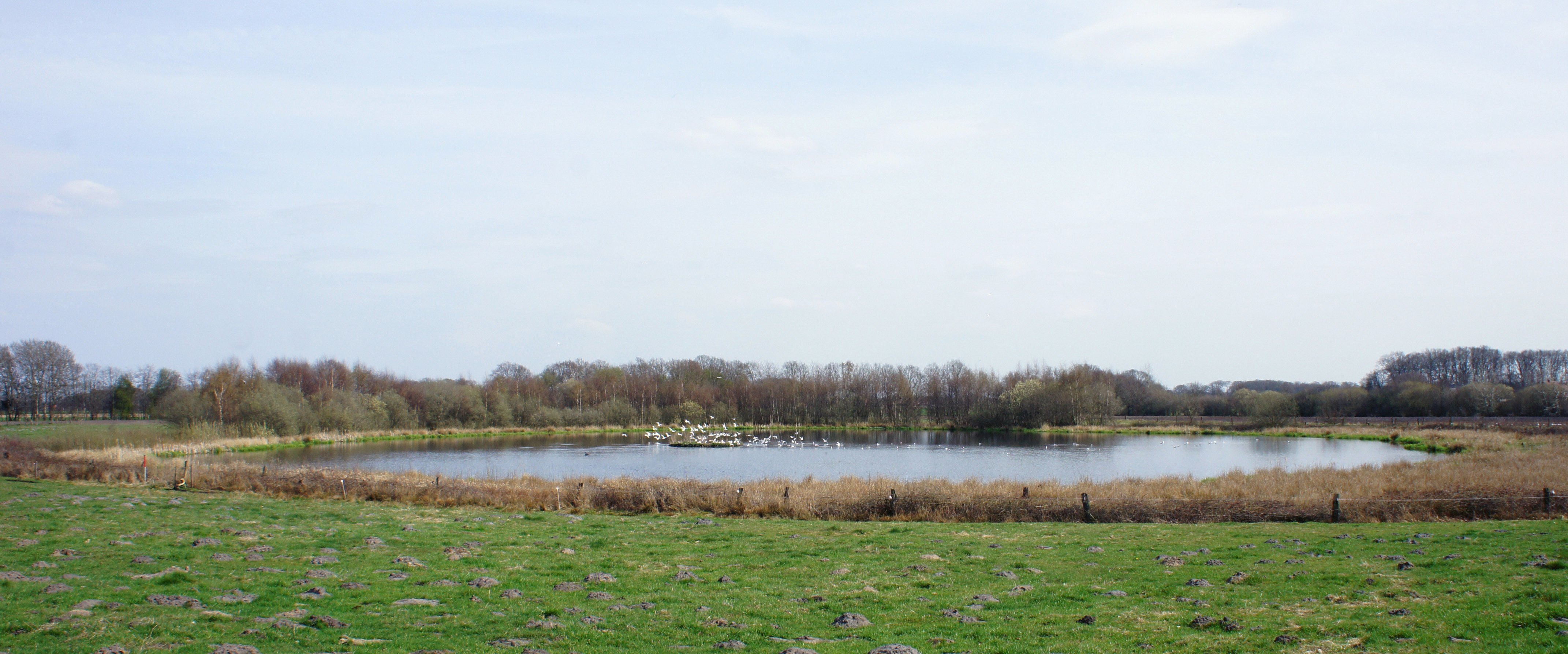 Lachmöwenschlatt near Brettorf